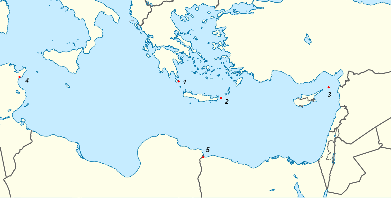 Soviet Navy's Mediterranean Squadron bases, 1973. 1 - Cythera 2 - East Crete 3 - Norteast of Cyprus 4 - Hammamet 5 - Sollum